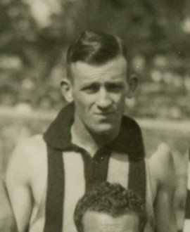 Photograph of Bob Muir from 1927-1932